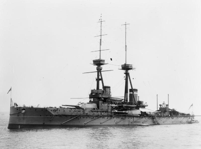 British battleship HMS COLLINGWOOD, 1912